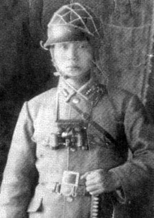 Park serving the Imperial Japanese Army